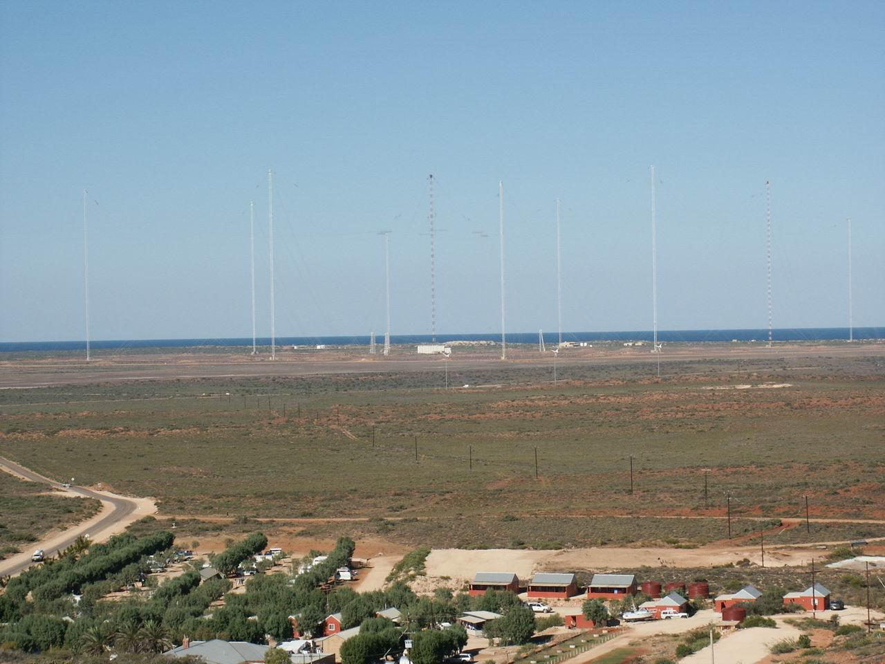 Naval Communication Station Harold E. Holt near Exmouth, Western Australia. The radio masts are part of a large wire antenna which is used to transmit very low frequency (VLF) radio waves to communicate with submerged submarines. This type of antenna is known as a "Goliath", a type of umbrella antenna, but has been heavily modified. It consists of a ring of steel masts which support a network of horizontal cables radiating from the central mast. The central mast acts as the radiating element, while the horizontal cables serve as a capacitive top-load, creating a large capacitor with the ground. This serves to increase the current in the central radiator, increasing the radiated power.